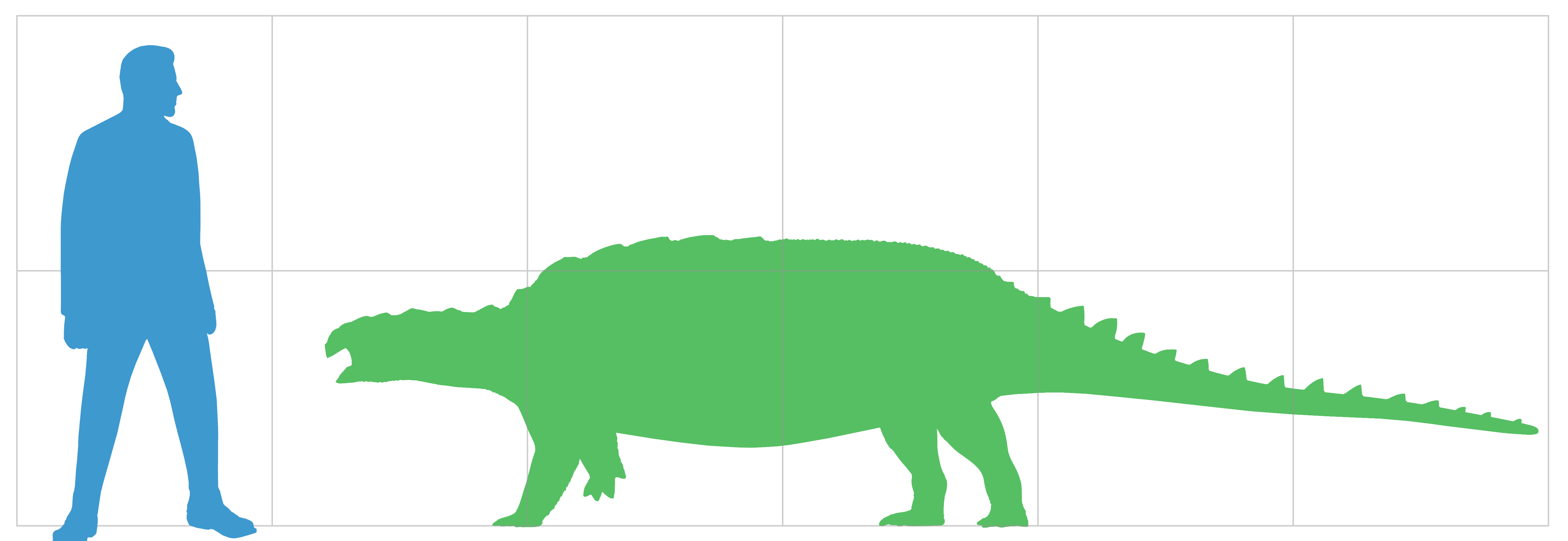 Polacanthus size comparison, each square = 1 metre. Based on Gastonia and Peloroplites